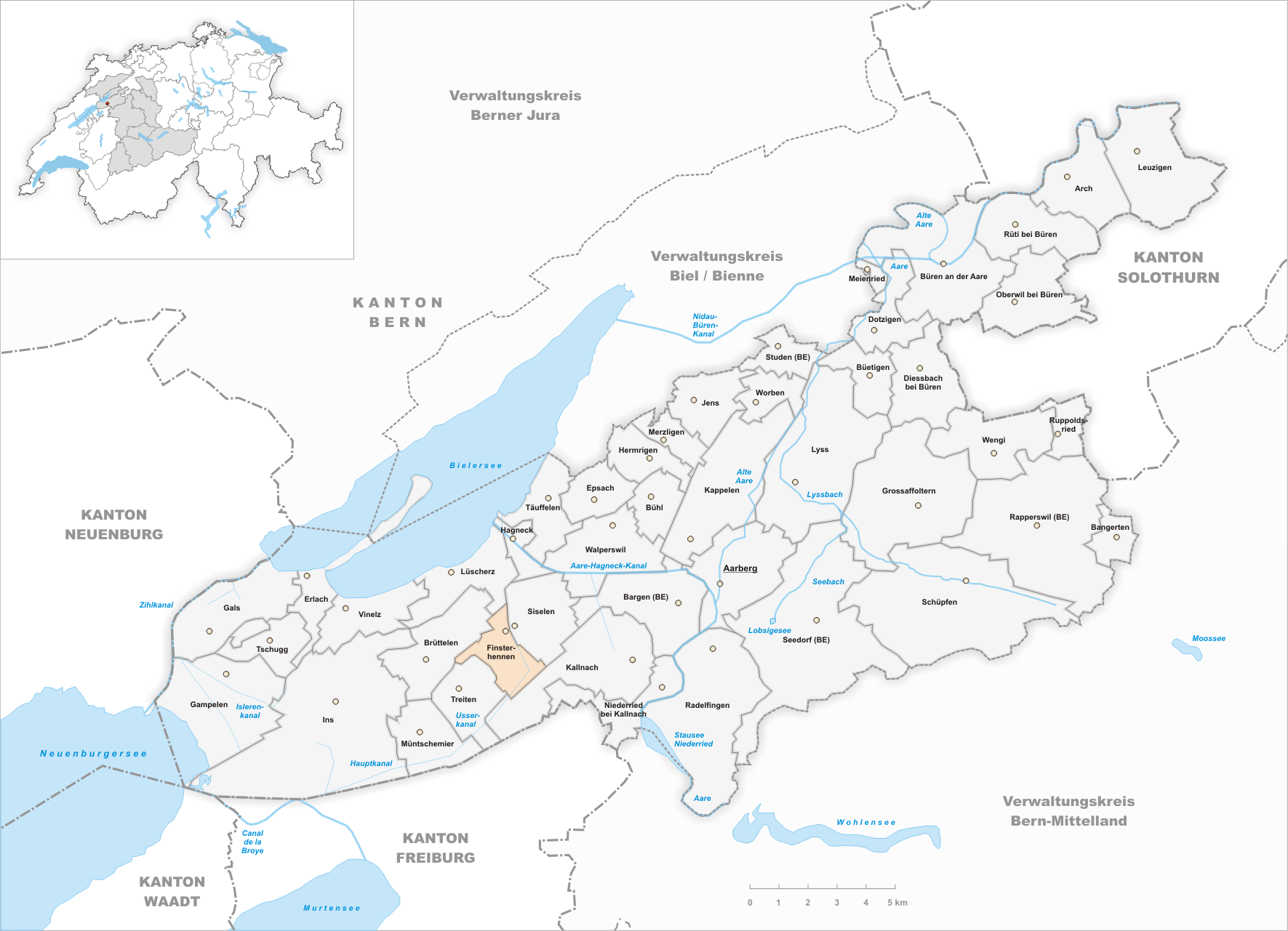 Municipality Finsterhennen